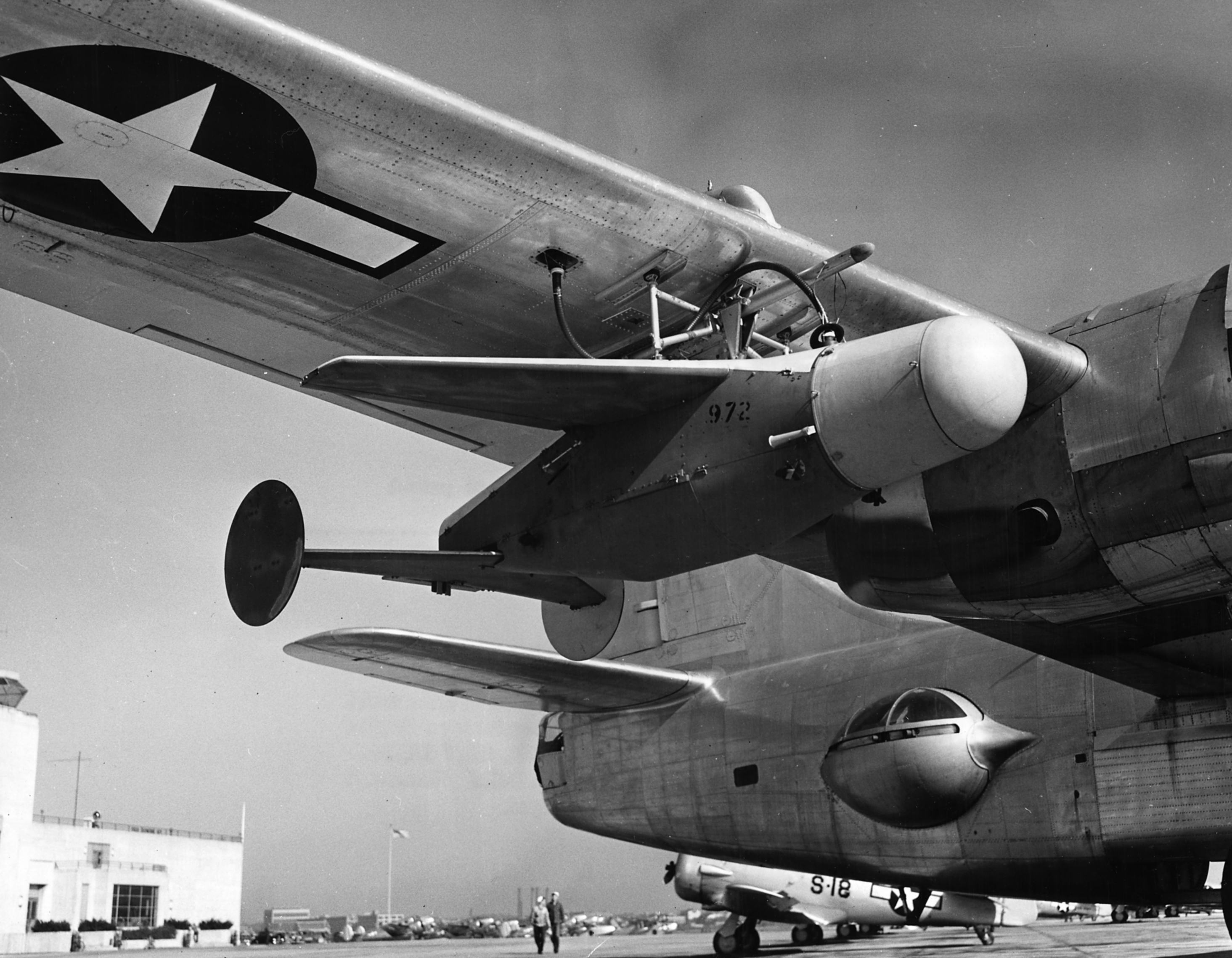 A U.S. Navy ASM-N-2 Bat guided bomb on a Consolidated PB4Y-2 Privateer, probably at the Philadelphia Ordnance District.